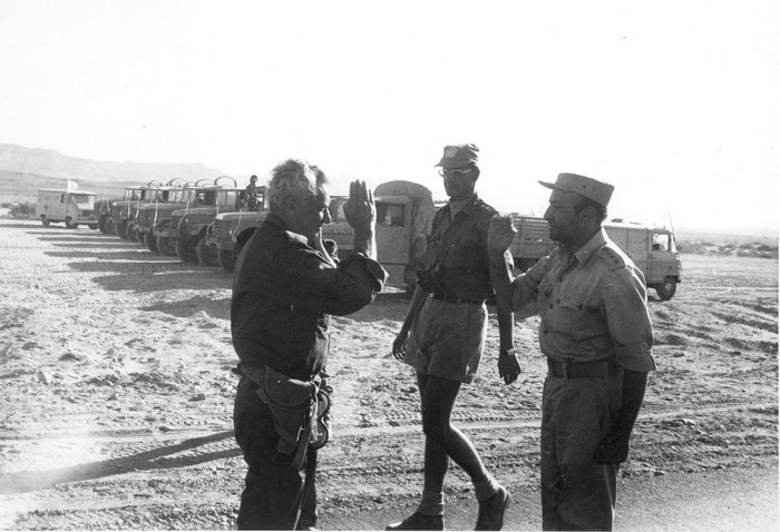 On the Yom Kippur of October 6, 1973, Egypt and Syria launched a coordinated surprise attack on Israel. The Yom Kippur War was launched on the holiest day on the Jewish calendar: The Day of Atonement. On October 24, 1973, Israel and Egypt signed a ceasefire agreement. A UN emergency force was established in the demilitarized zone as part of the separation of forces agreement that was signed on January 18, 1974. Pictured above is a UN-arranged meeting between IDF Lt. Gen. Haim Bar-Lev and an Egyptian general. Photo: IDF photo archives.